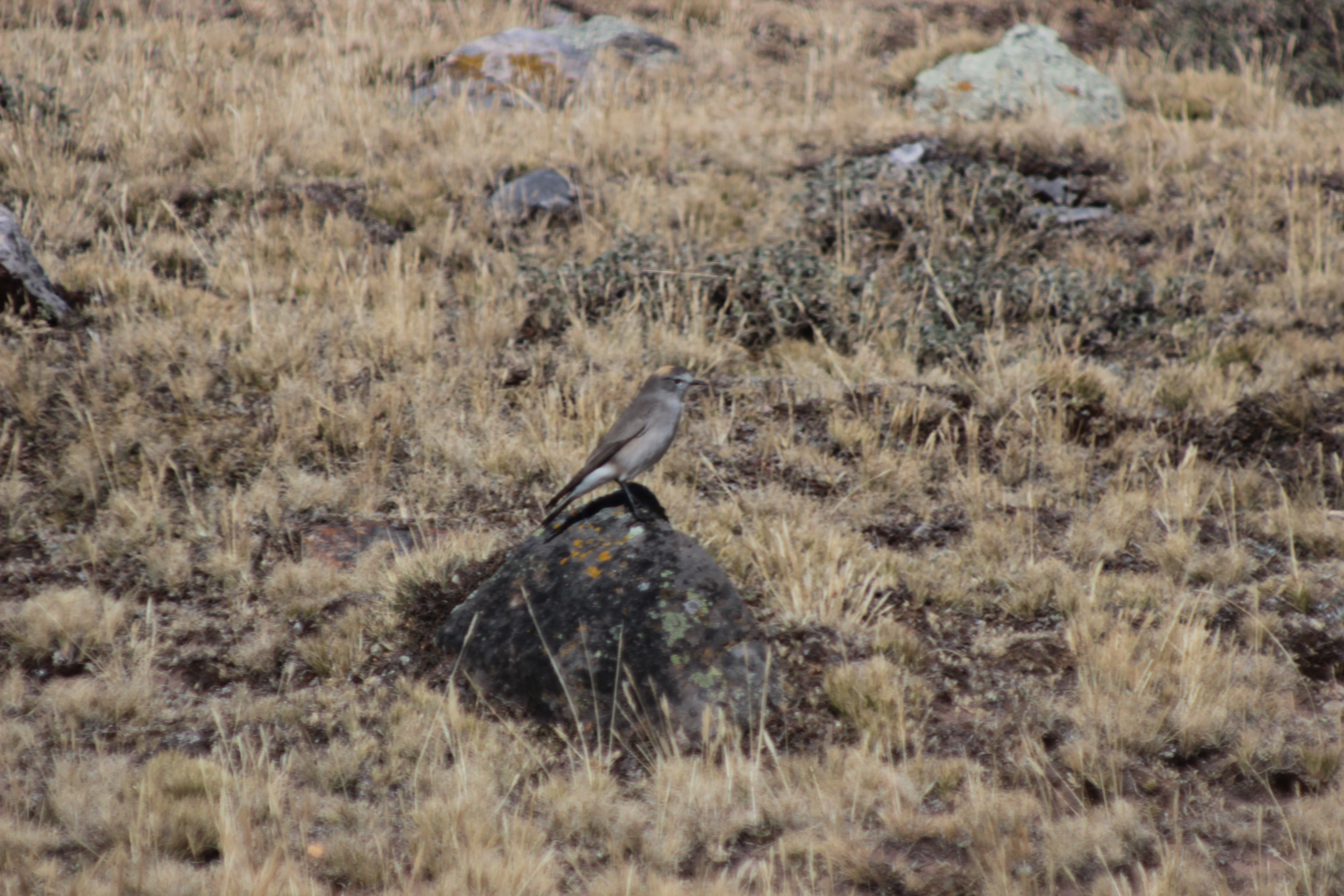 Ochre-naped ground-tyrant